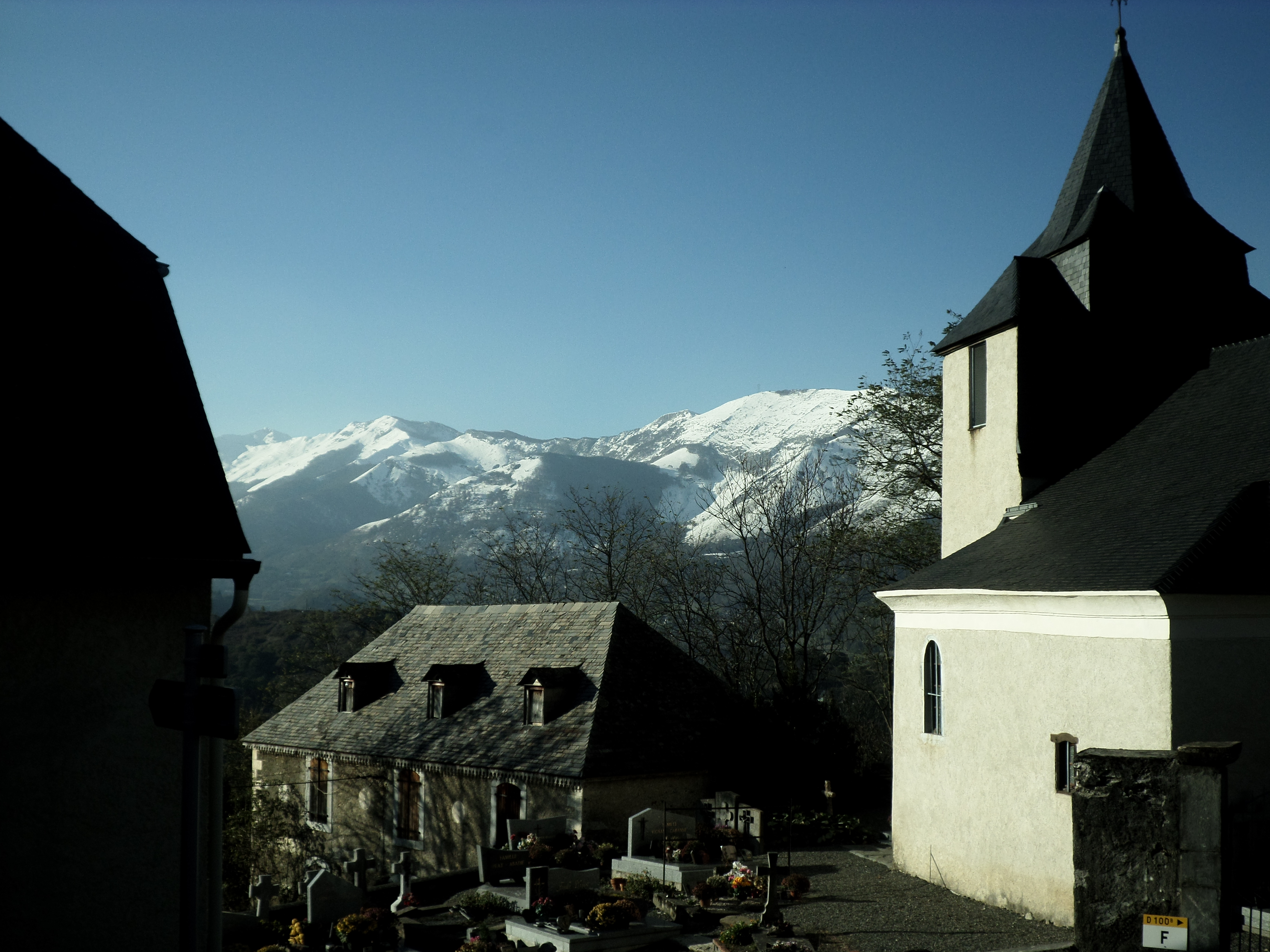 Eglise de L'Assomption à Saint Pastous